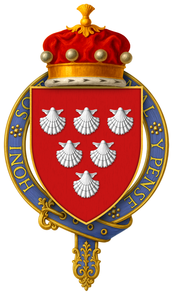 Sir Thomas de Scales, 7th Baron Scales, KG FOSTER, Joseph, Some Feudal Coats of Arms from Heraldic Rolls 1298-1418, London: James Parker & Co., 1902. “ Scales, Robert de of Musells, banneret, baron 1299, bore, at the battle of Falkirk 1298, and at the siege of Carlaverock 1300, gules, six escallops argent (F.) -- Nicolas names 3 only in Harleian Roll, 10 in St. George Roll. See knights banneret in Arundel Roll; sealed (with 6 escallops) in Barons' letter to the Pope 1301, and so ascribed to Thomas, last Lord Scales, K.G., in K. 402 fo. 4. ”